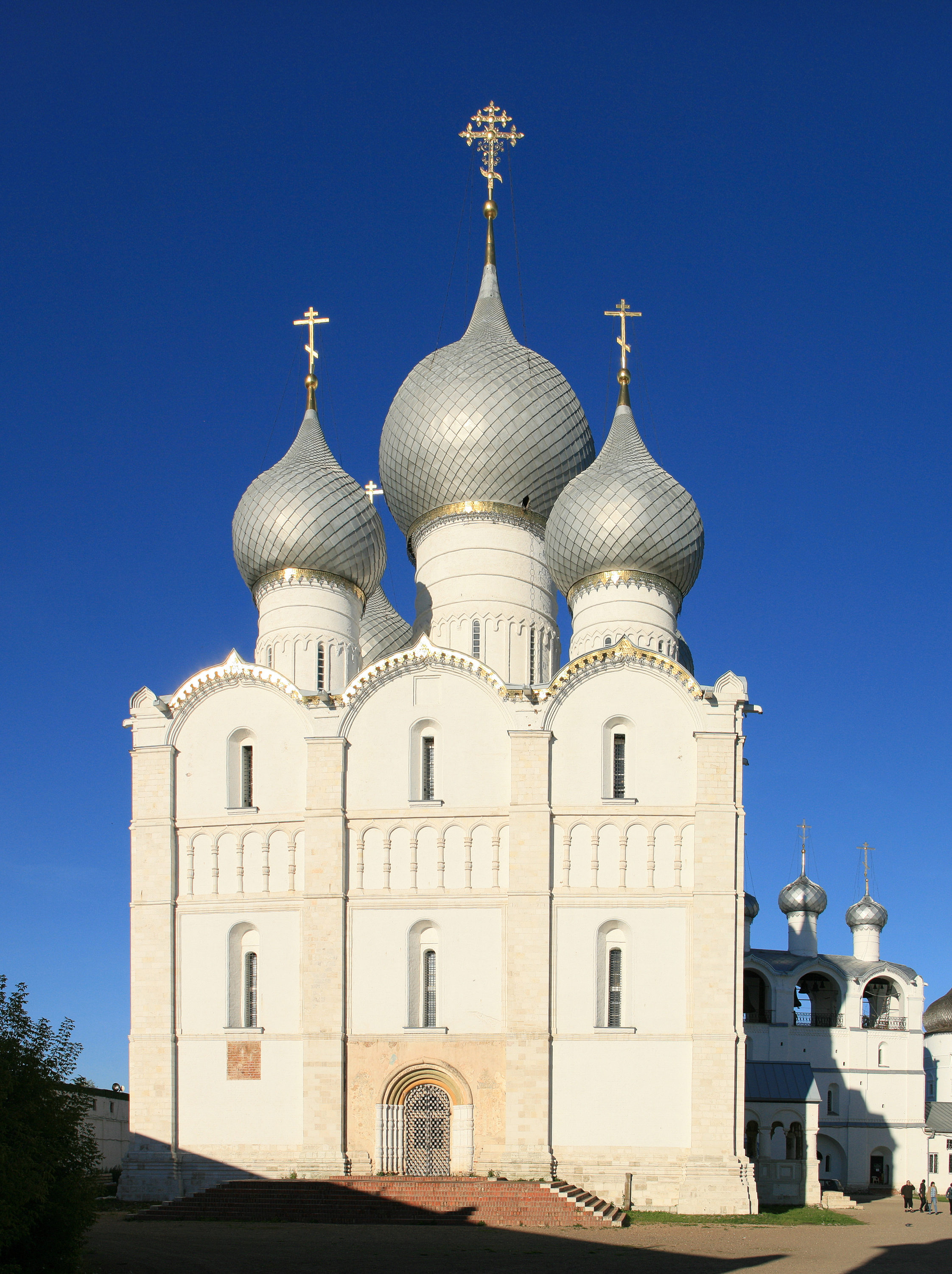 Cathedral of the Dormition of the Theotokos, Rostov Kremlin, Yaroslavl oblast